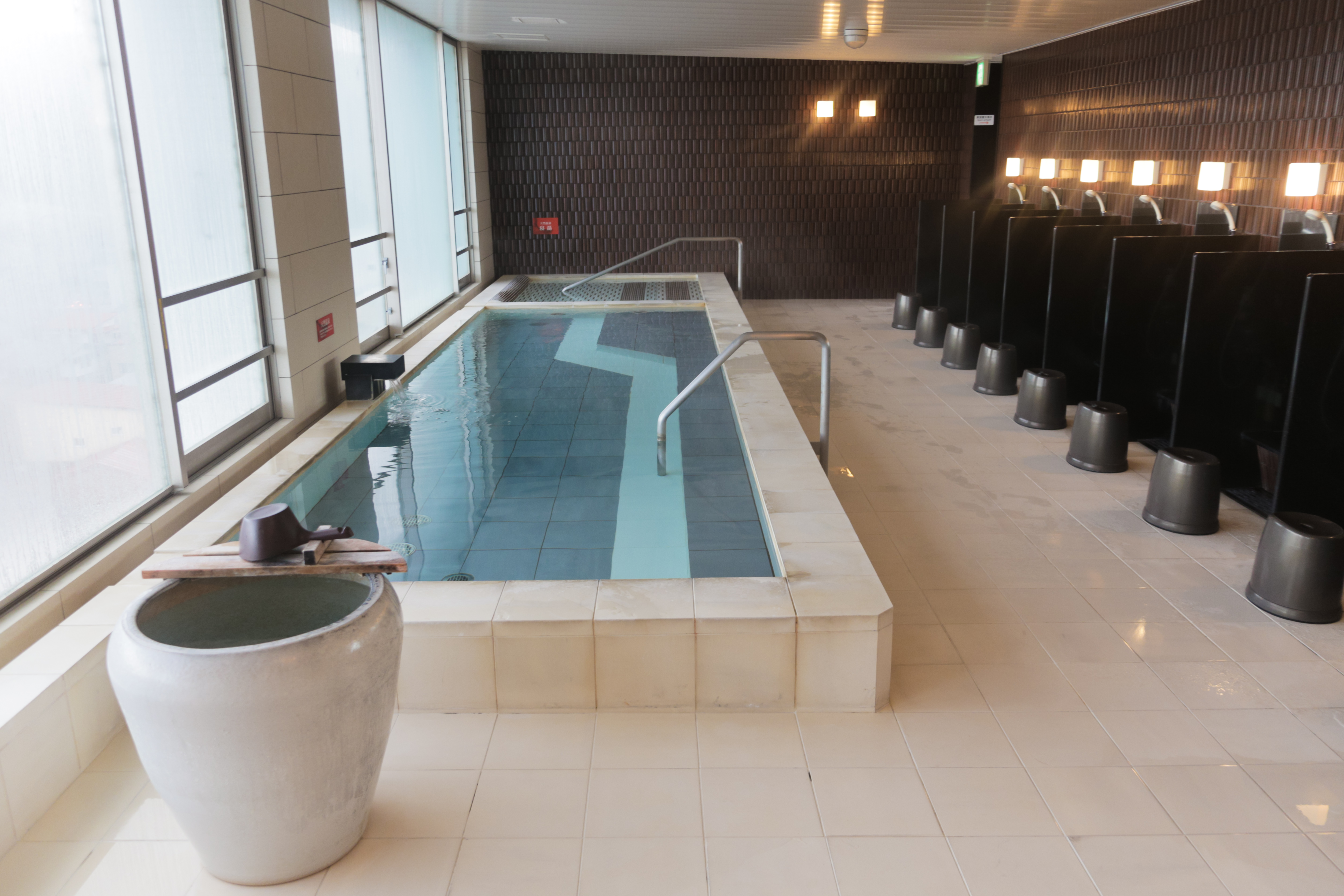 Modern Sentō (Japanese communal bath house) at Takayama, Gifu pref.